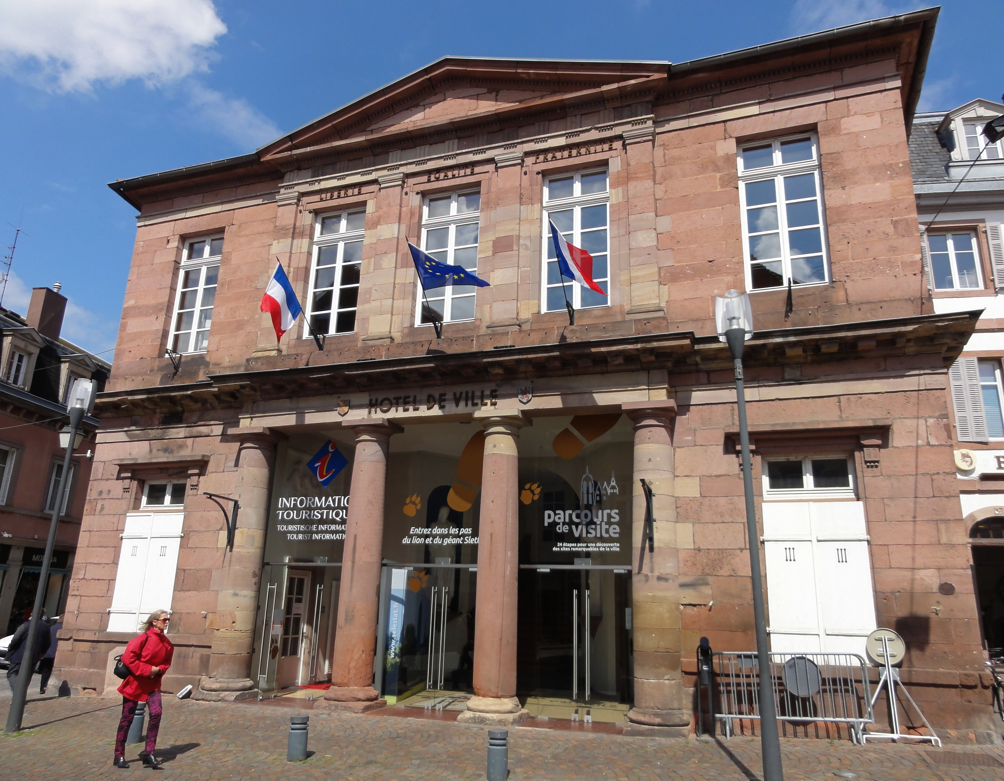 Alsace, Bas-Rhin, Sélestat, Hôtel de Ville (1788), place d'Armes. It is indexed in the Base Mérimée, a database of architectural heritage maintained by the French Ministry of Culture, under the references PA00084987 and IA00124597.